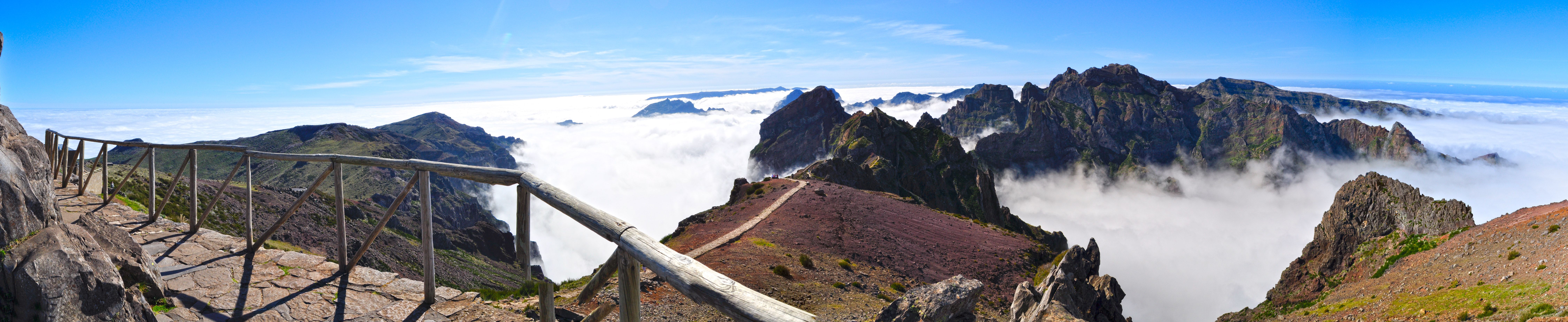 This is a photography of a Site of Community Importance in Portugal with the ID: PTMAD0002. Natura2000 entry, EEA entry